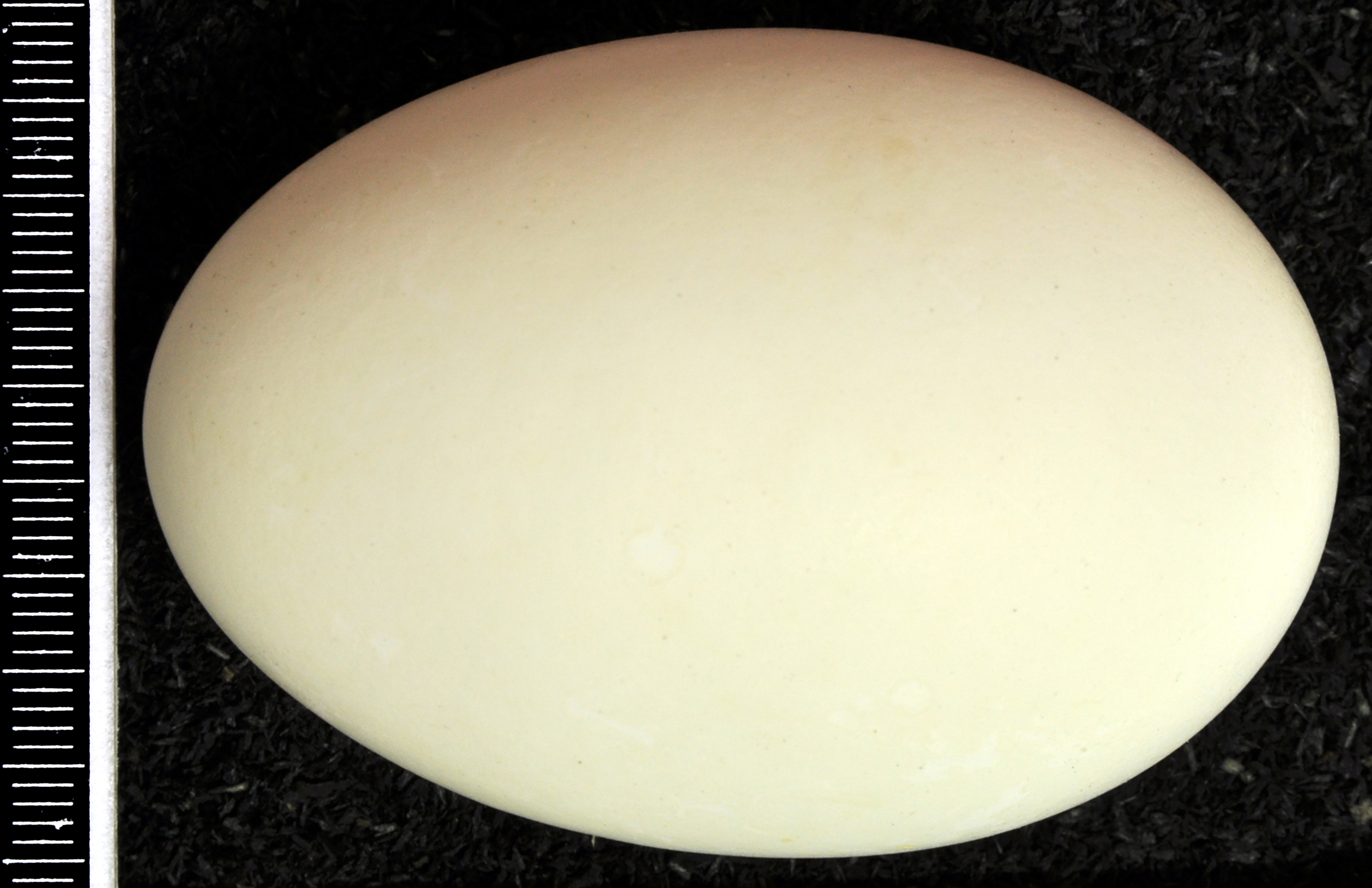 Mallard Anas platyrhynchos , egg, Coll. Museum Wiesbaden